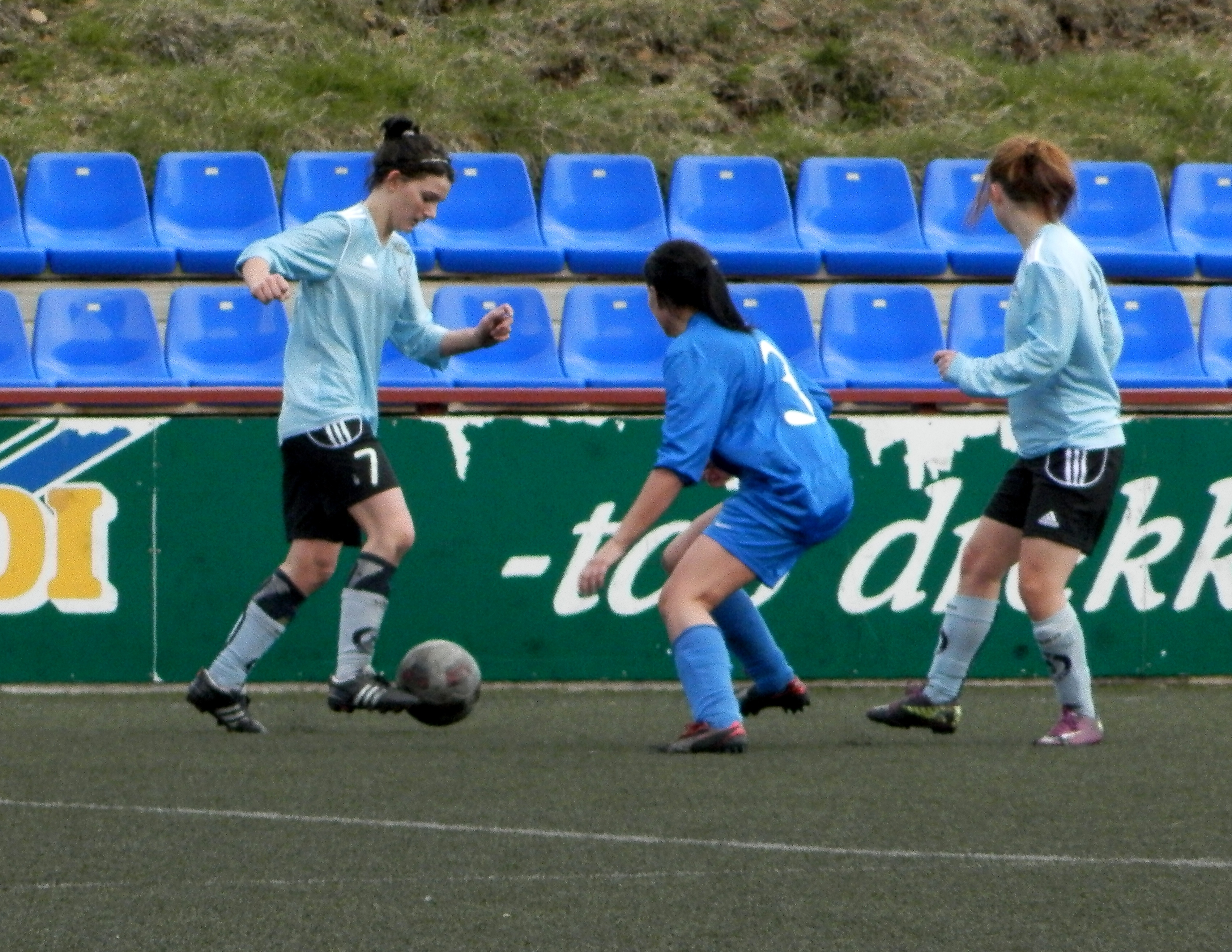 Football match in the Faroe Islands in the women's best division 1. deild. The match was played on 1 July 2012, it was between FC Suðuroy and Víkingur Gøta. FC Suðuroy won the match 2-1. Føroyskt: Fótbóltsdystur í bestu kvinnudeildini í Føroyum, 1. deild kvinnur. Dysturin var millum FC Suðuroy og Víking. FC Suðuroy vann dystin 2-1. Dysturin varð leiktur á Eiðinum í Vági.